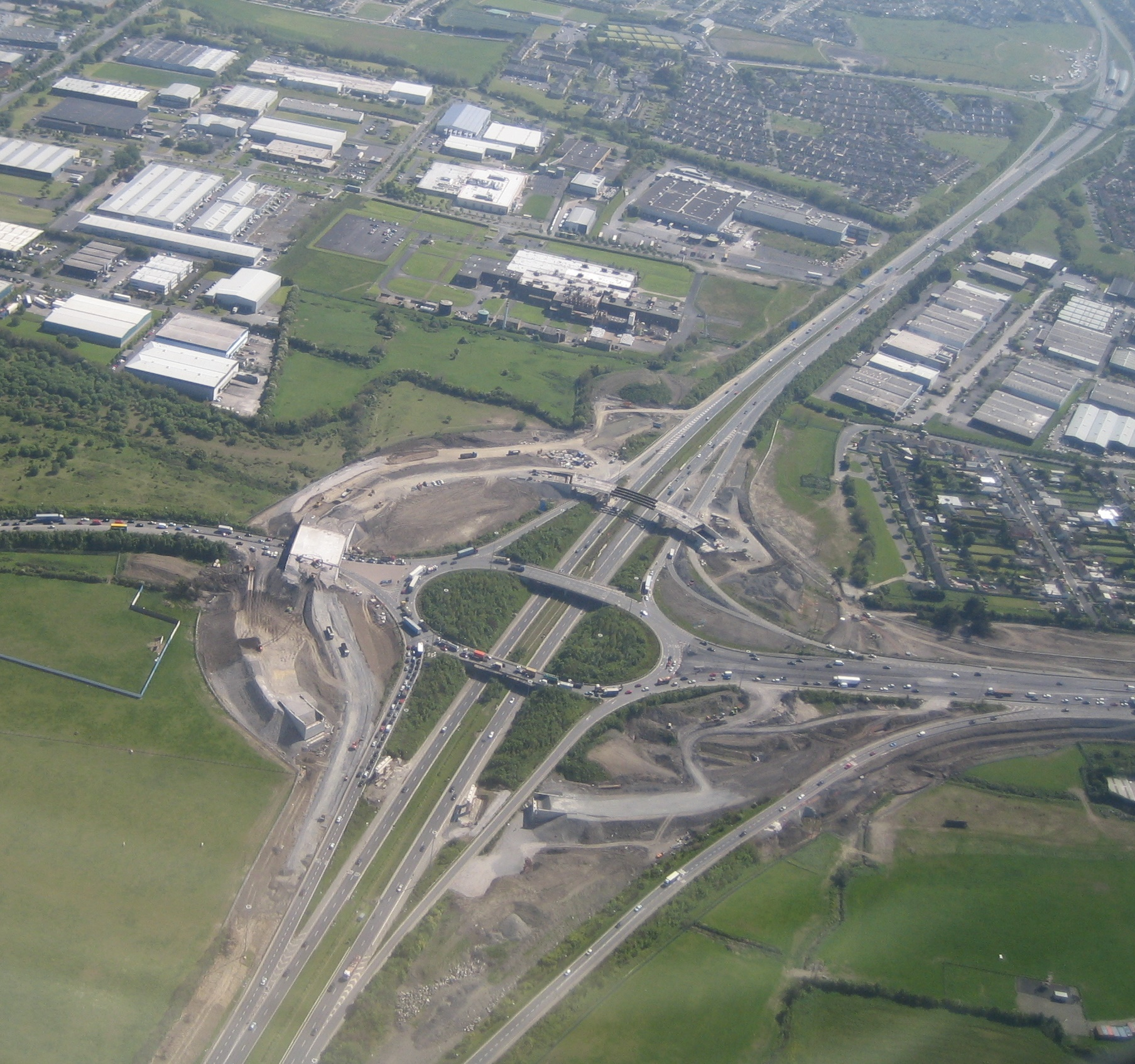 The junction between the M1 and M50 motorways near Dublin, Ireland, during construction of the new junction layout.